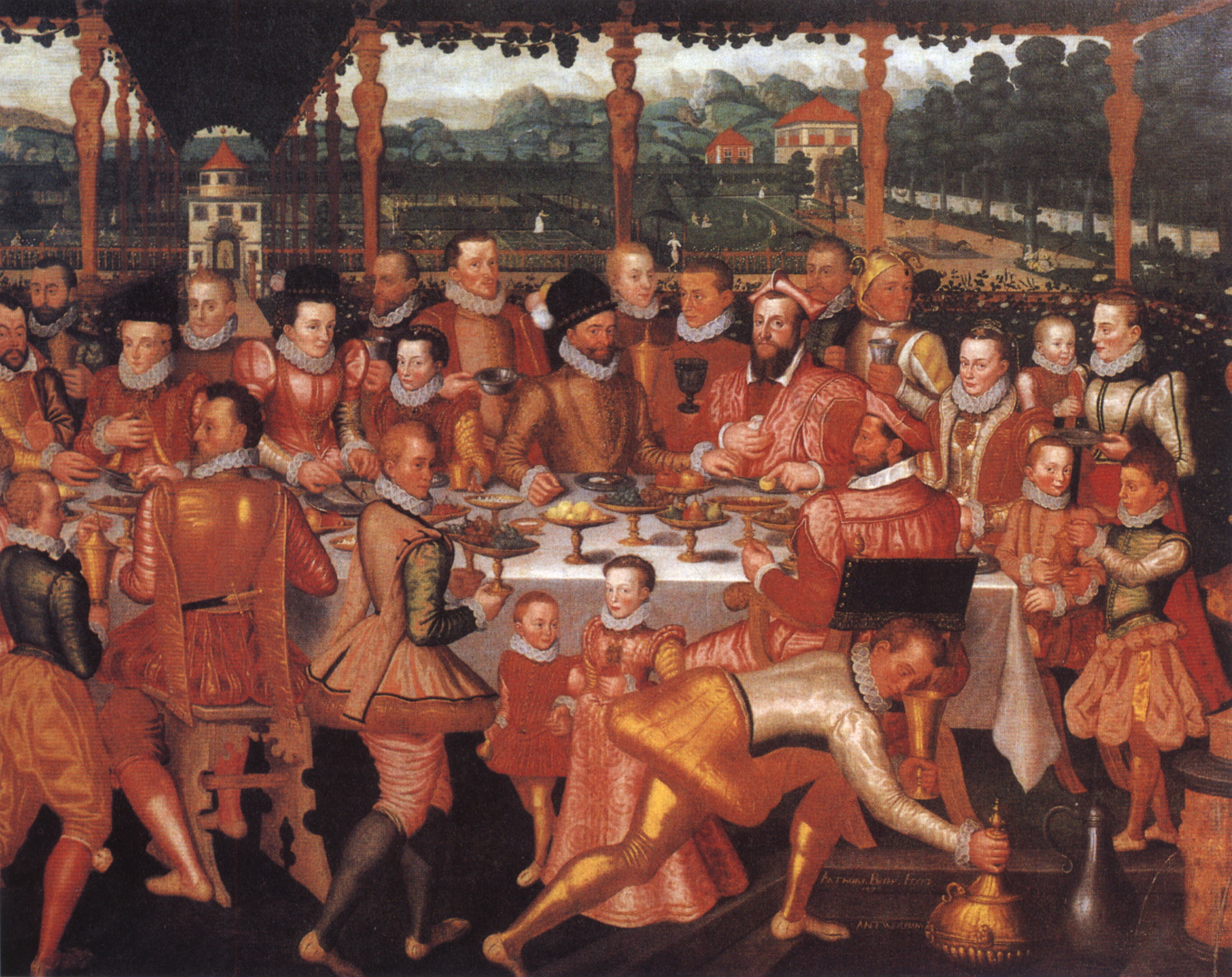 Anthony Bays: Hohenemser Festtafel, 1578